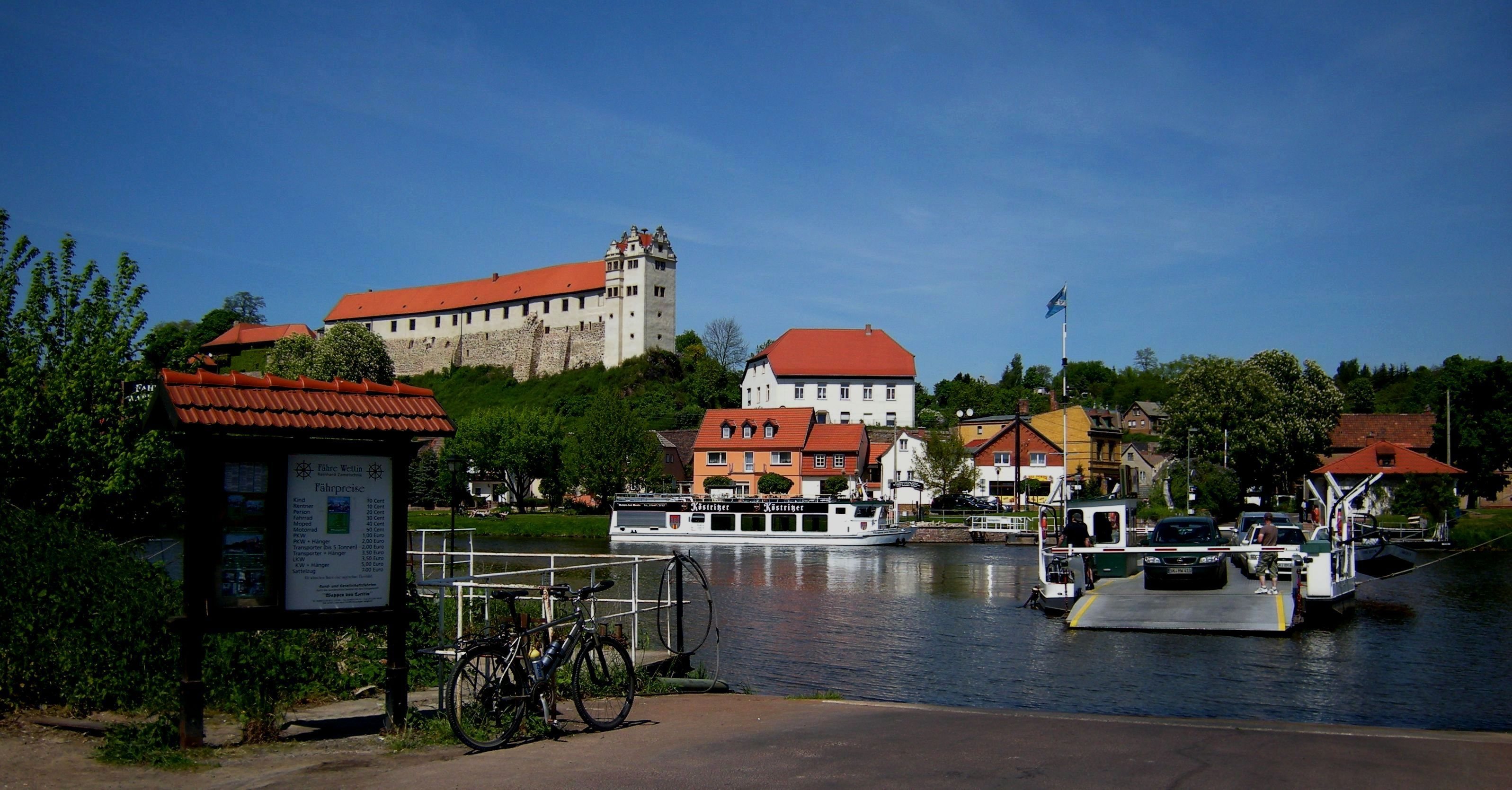 Wettin - Castle over river Saale, ferry, signpost